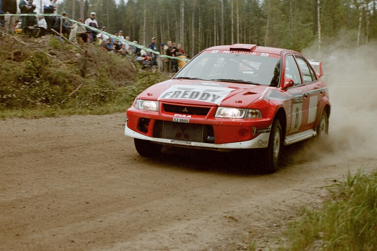 Freddy Loix at the 2001 Rally Finland.